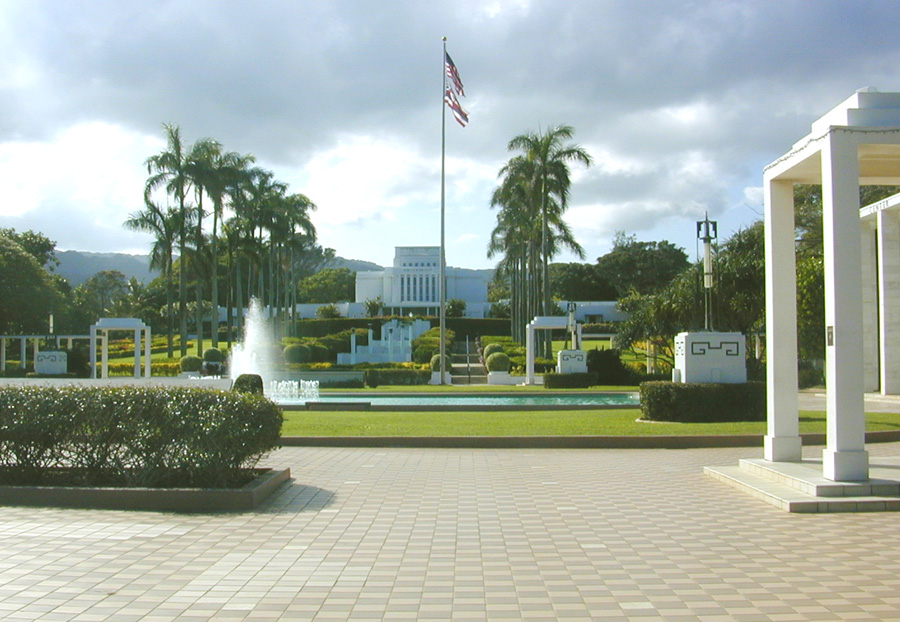 The Laie Hawaii Temple of The Church of Jesus Christ of Latter-day Saints; photograph taken by Eric Guinther and released under the GNU Free Documentation License.